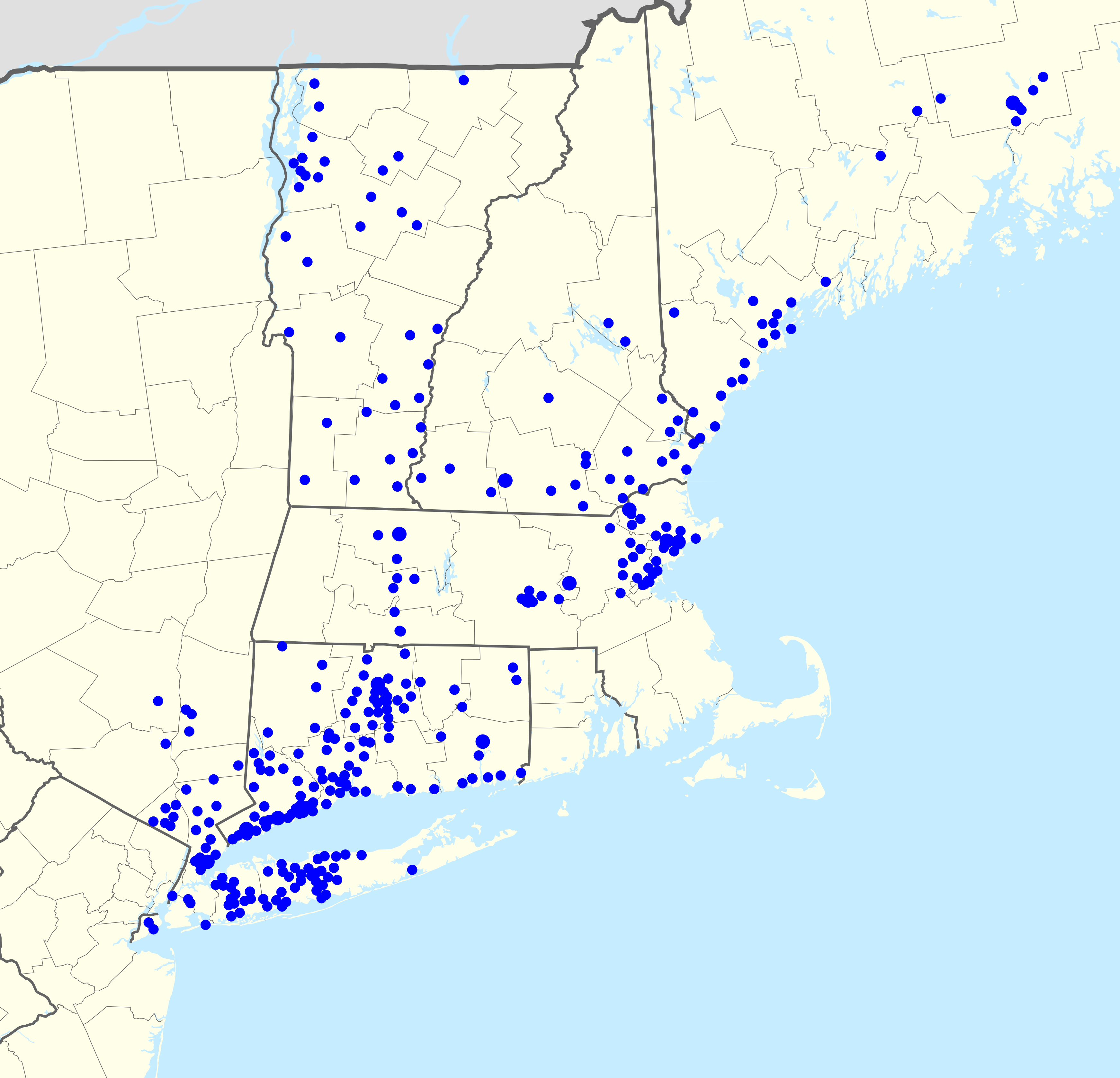 Footprint of People's United Bank as of March 2013.